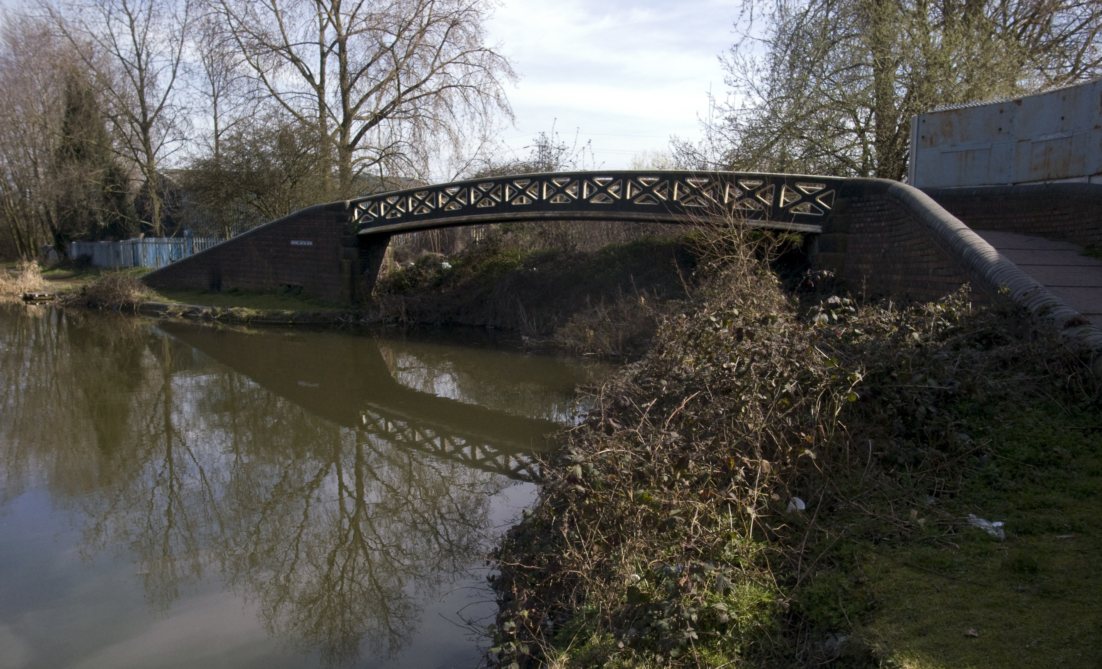 A Horsley Ironworks cast iron bridge at the entrance to the disused Two Locks Line of the Dudley Canal, England.